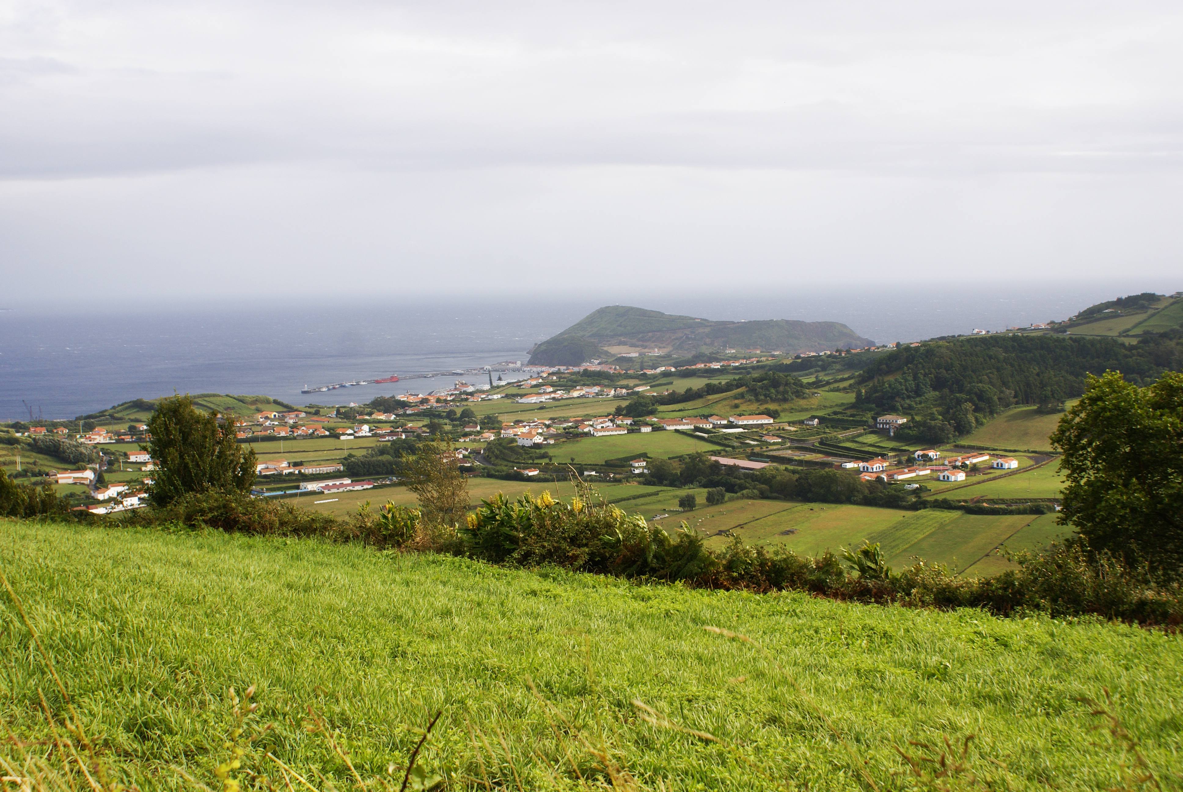 Paisagem da ilha do Faial, Açores, Portugal